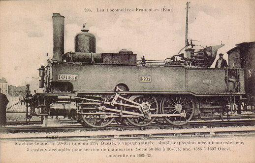 Ouest 030T 1397